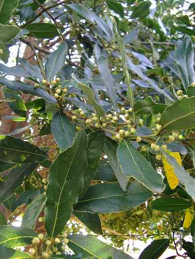 Bay laurel (Laurus nobilis)